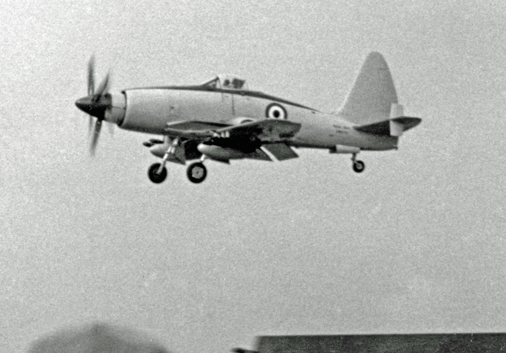 Westland Wyvern TF.2 operated by Westland Aircraft giving a display at the 1953 Farnborough SBAC show.